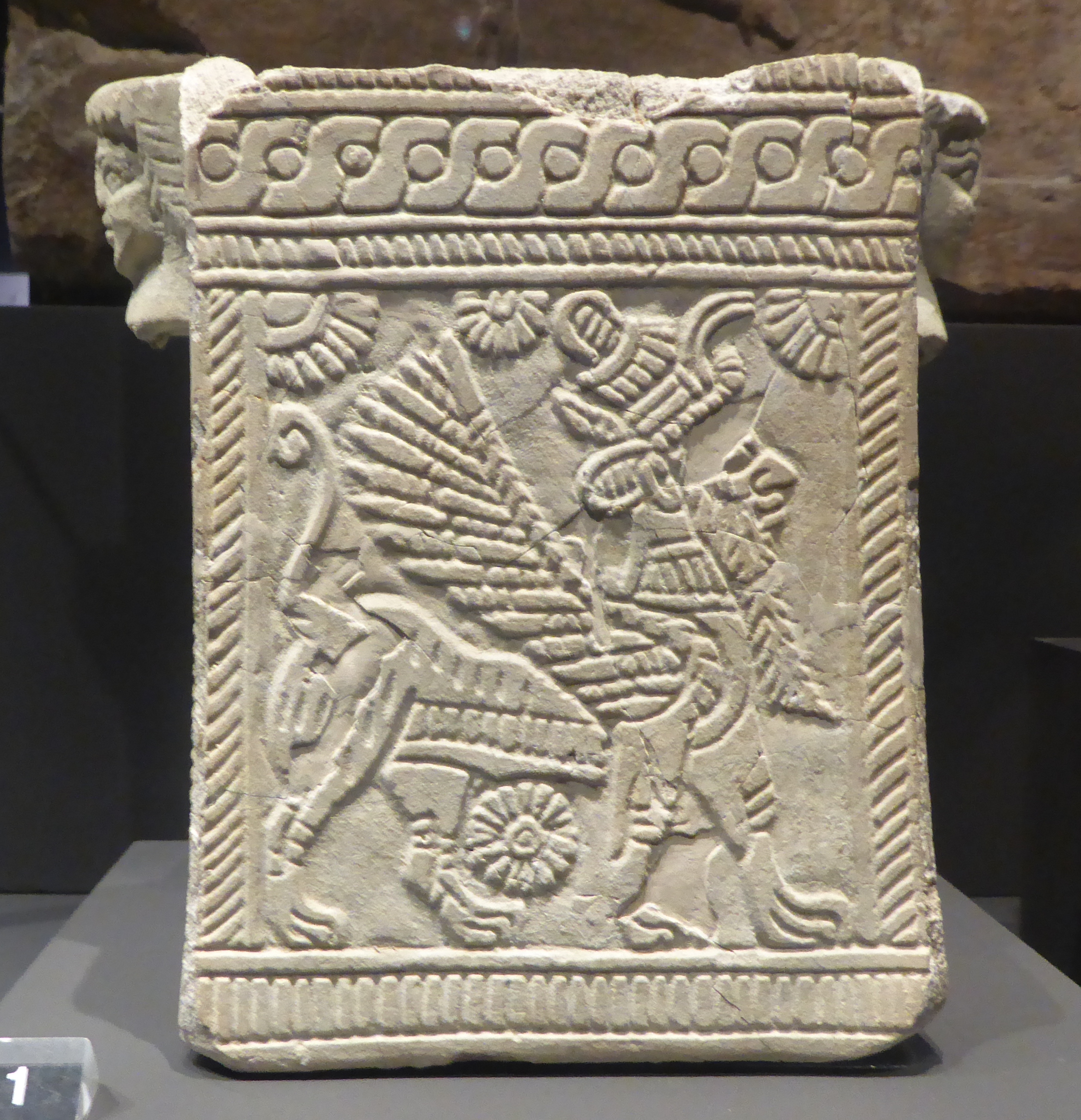 Faience box found at Susa, Elamitic (in nowadays South West Iran), about 900 - 700 BC